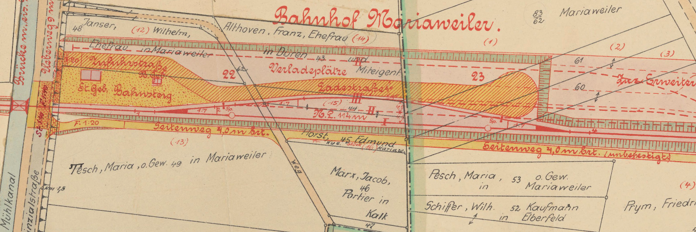 Plan of Mariaweiler Station of Dürener Kreisbahn